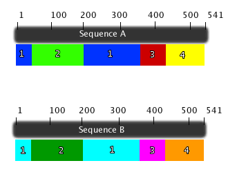 Conserved Domains